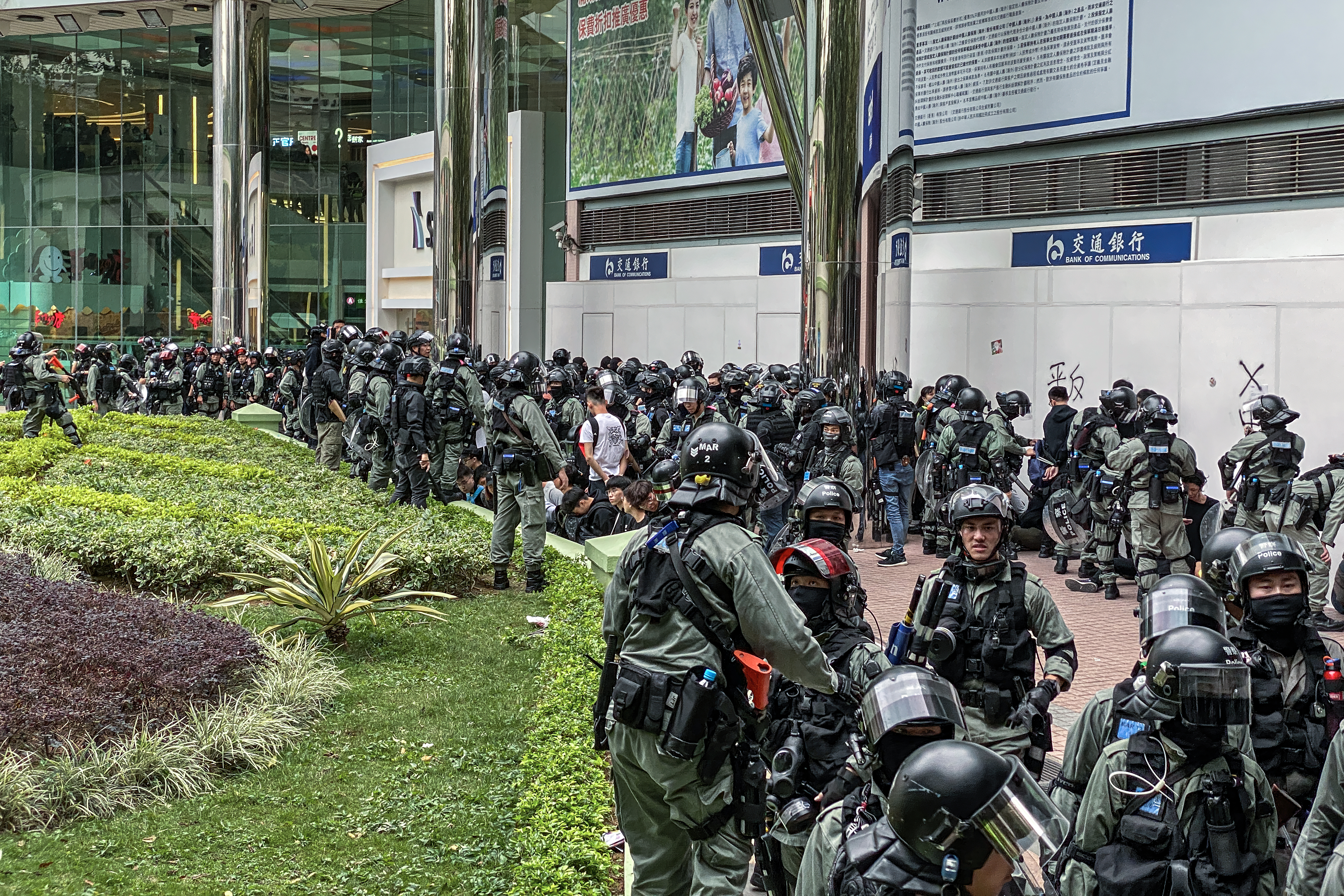 IMG_9142 Riot police arrest several people in Sheung Shui Garden